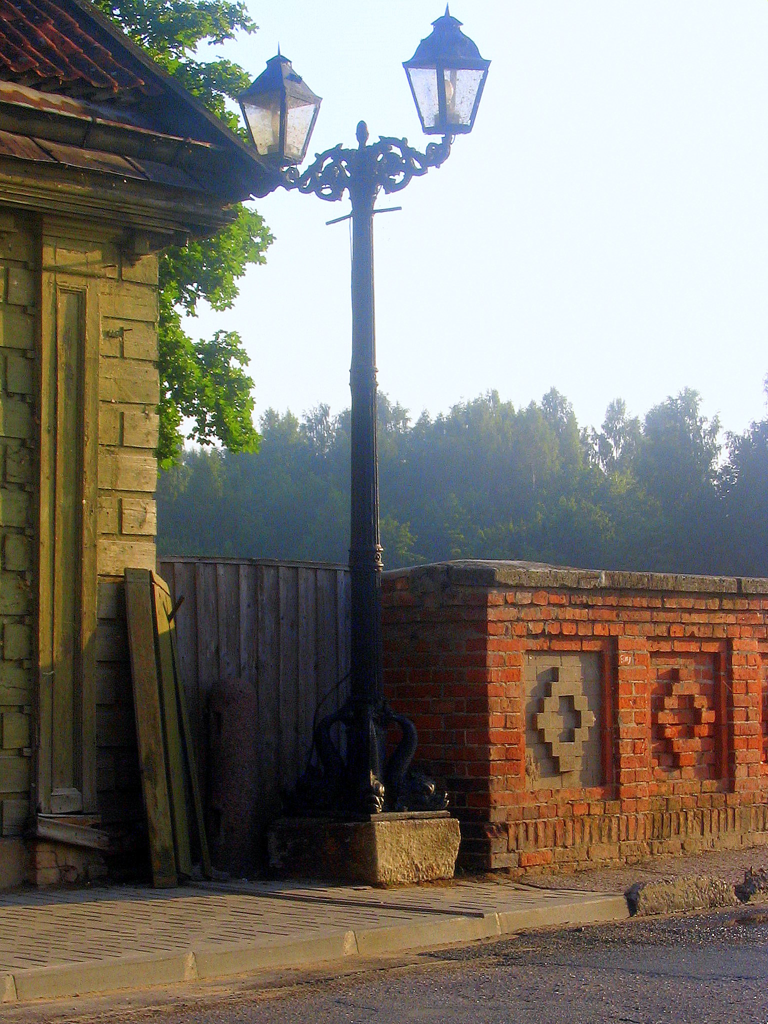 Brick bridge latern